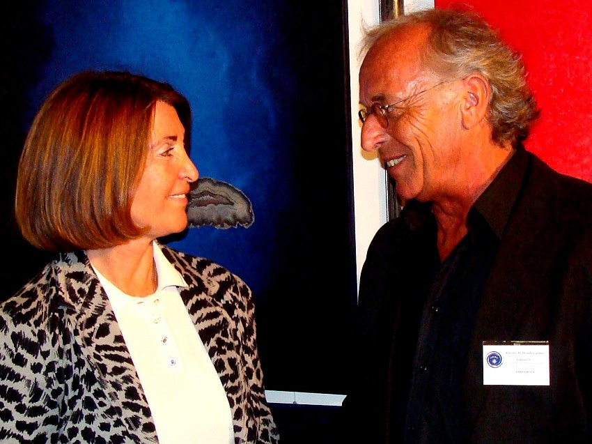 Marina Picasso and Theo Hues in Cannes, France, 2011